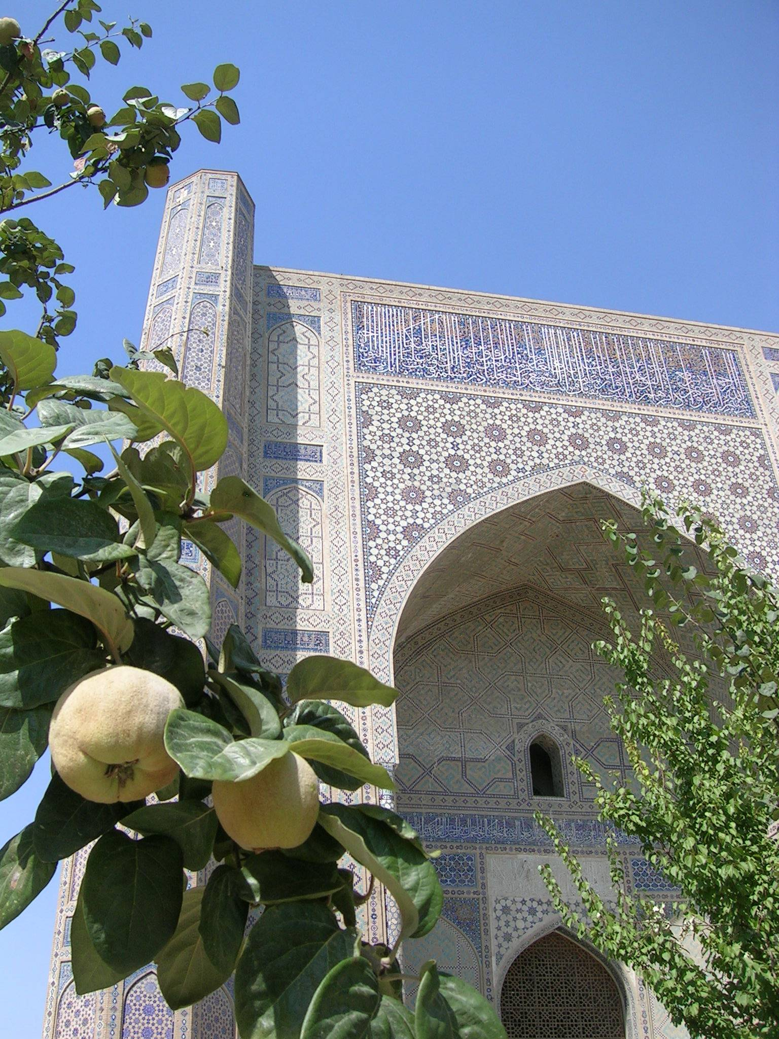 Samarkand (Uzbekistan) : View of Bibi Khanym mosque gate